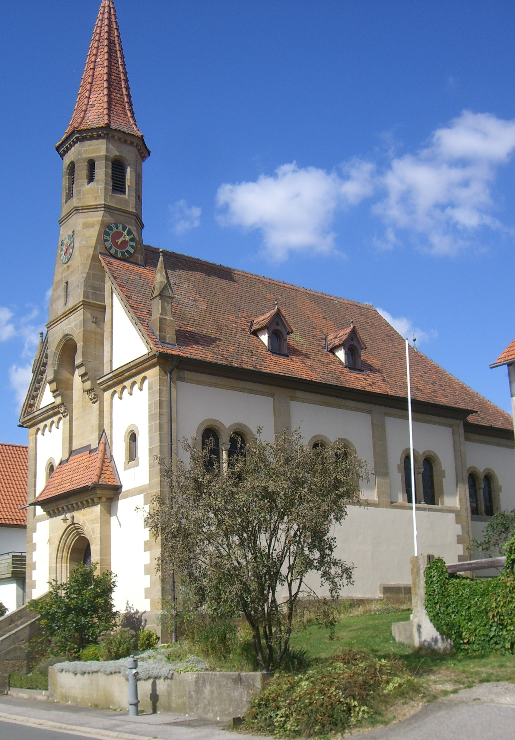 Die 1900-1901 im neuromanischen Stil errichtete Kirche zu Ehren der Hl. Familie in Windischletten